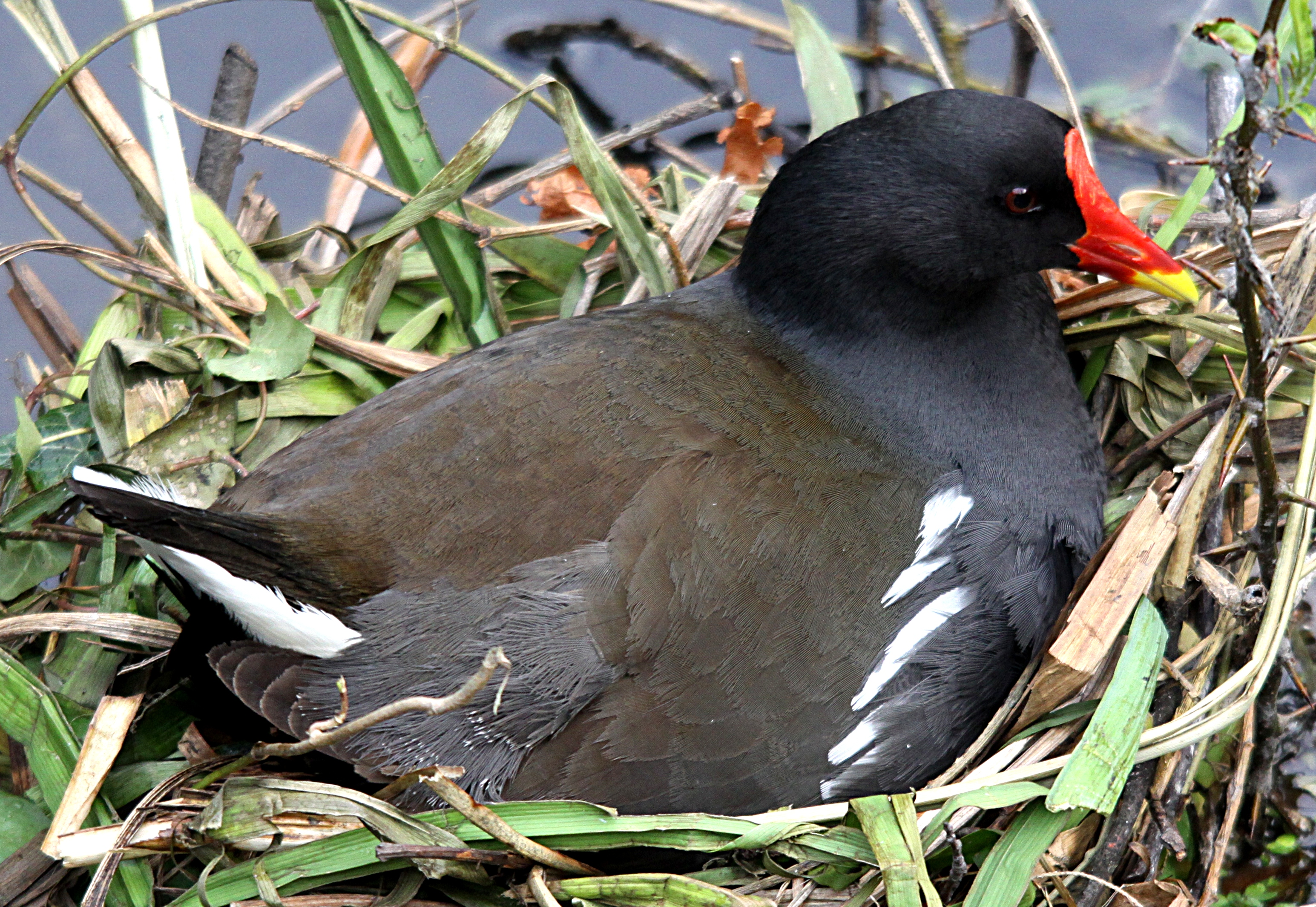 A Moorhen Gallinula chloropus sitting on its nest, Hackbridge, Croydon, England